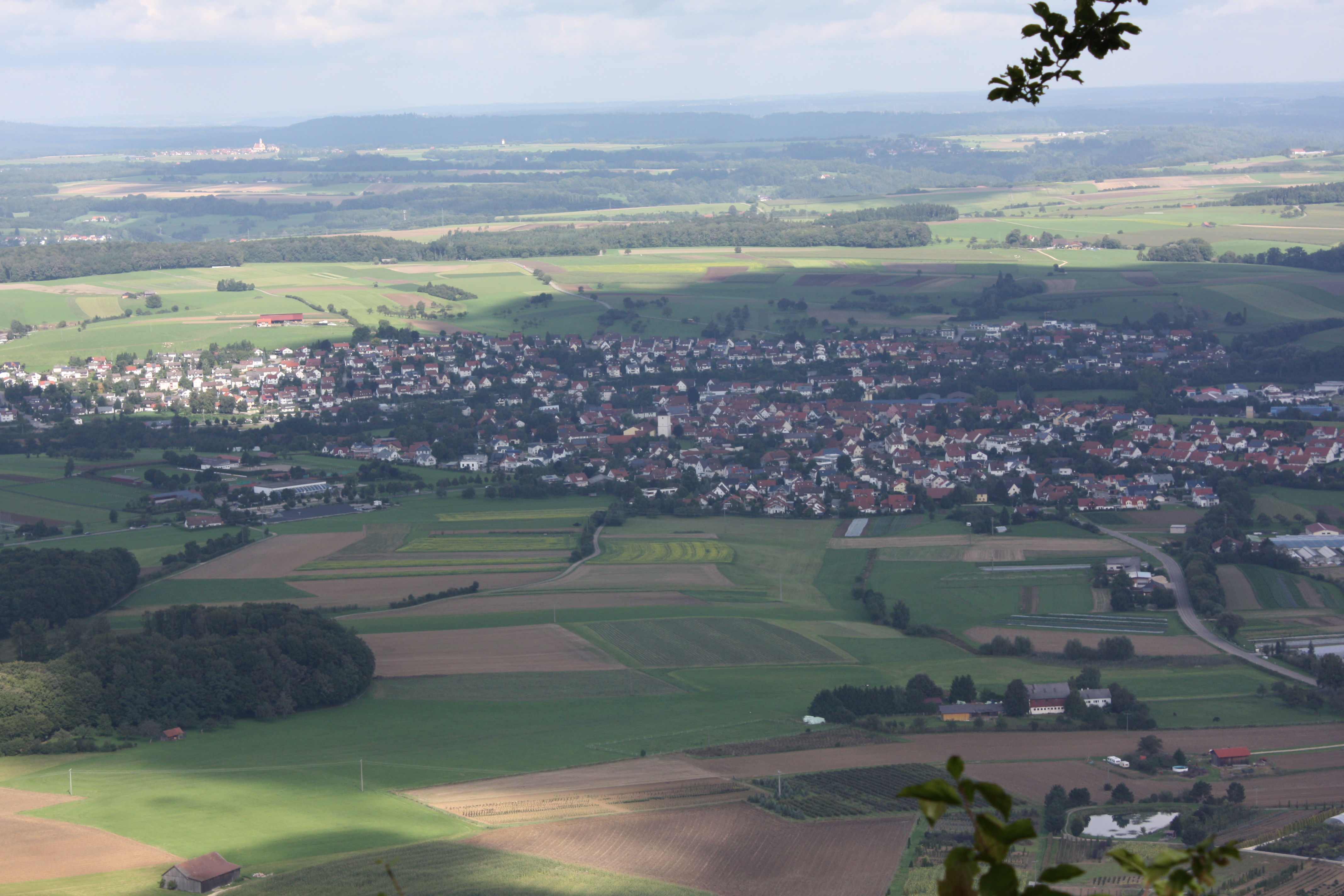 View on Mögglingen (Baden-Württemberg, Germany) from the Rosenstein